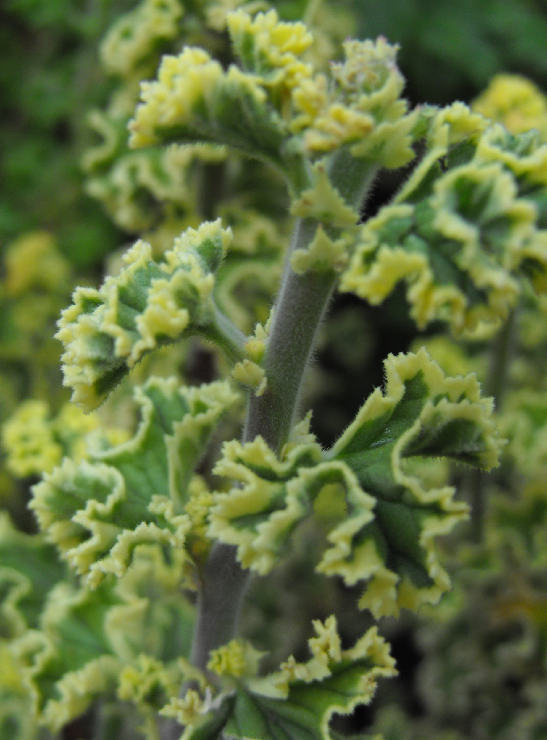 Pelargonium crispum 'Variegatum' in the Botanical Bldg., Balboa Park, San Diego, California, USA.